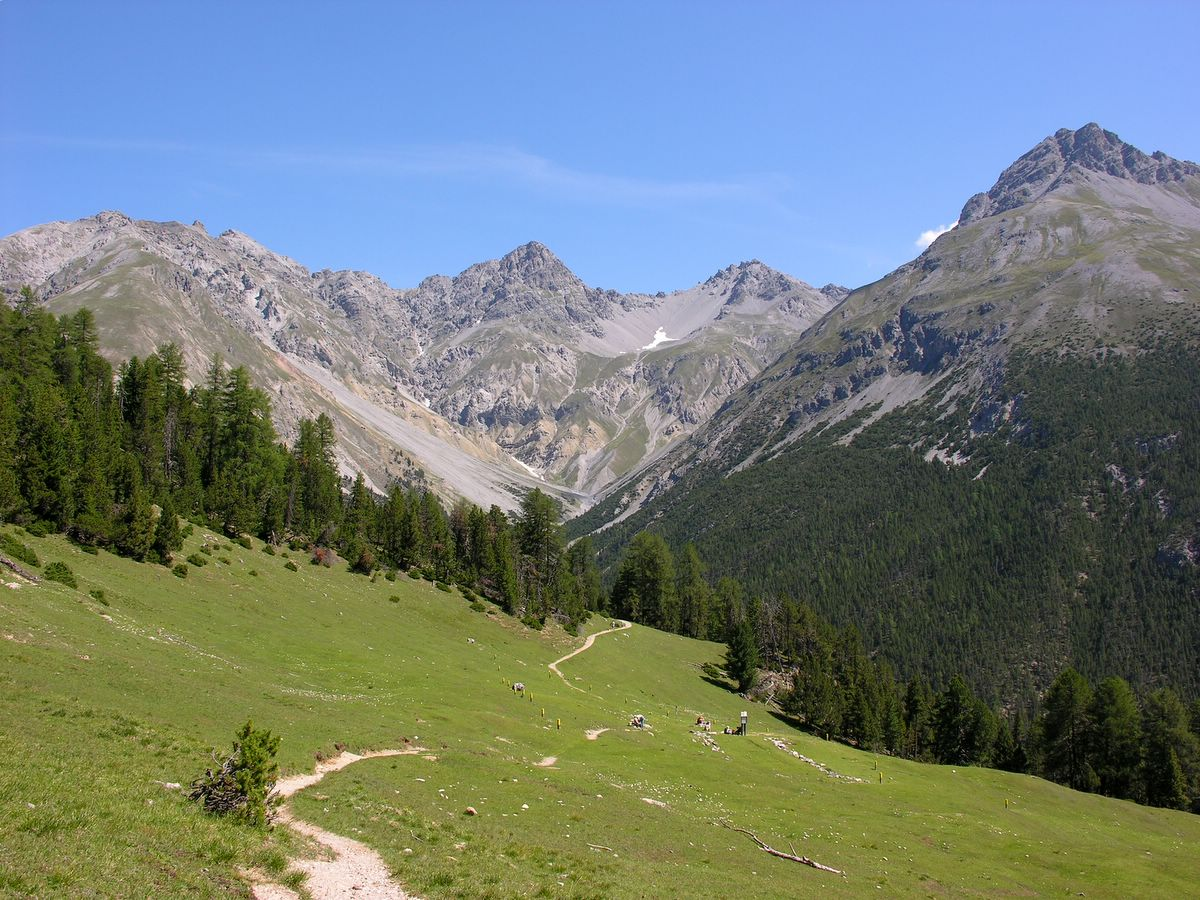 Swiss National Park